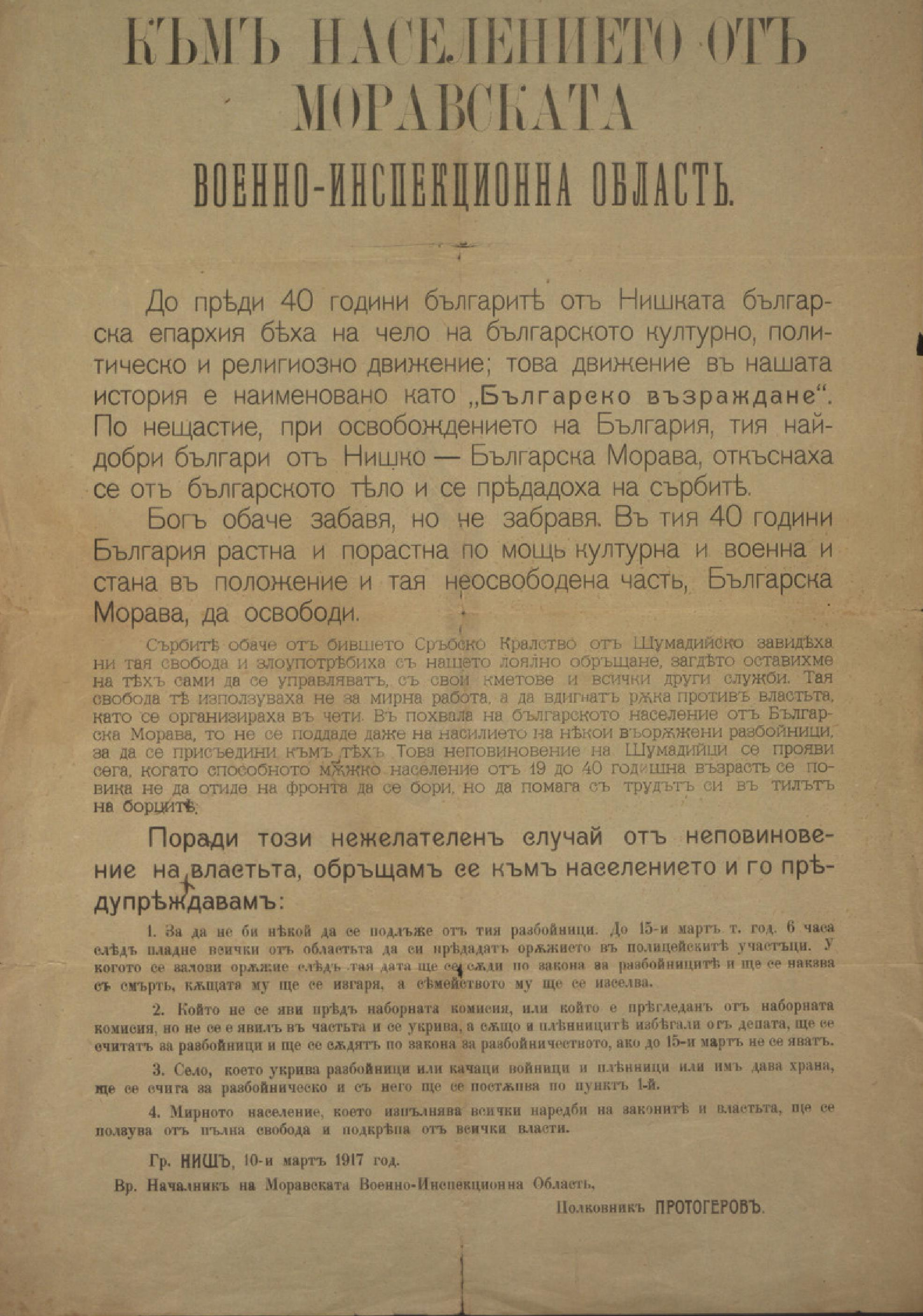 To the Population of the Moravian Military Inspection District - 10 March 1917